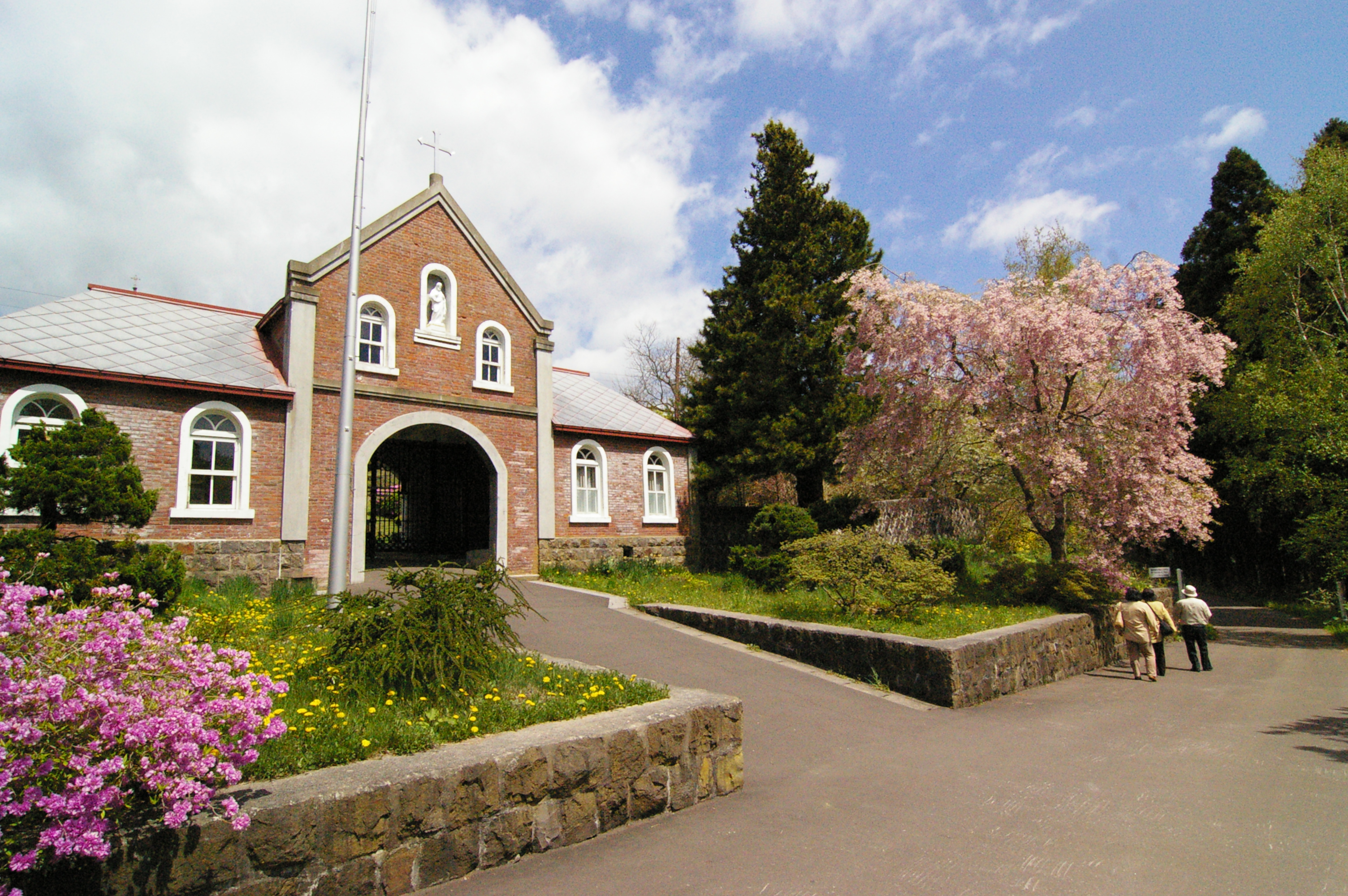 Cherry blossoms at the gate of Tobetsu Trappist Monastery in Hokuto City, Hokkaido, Japan